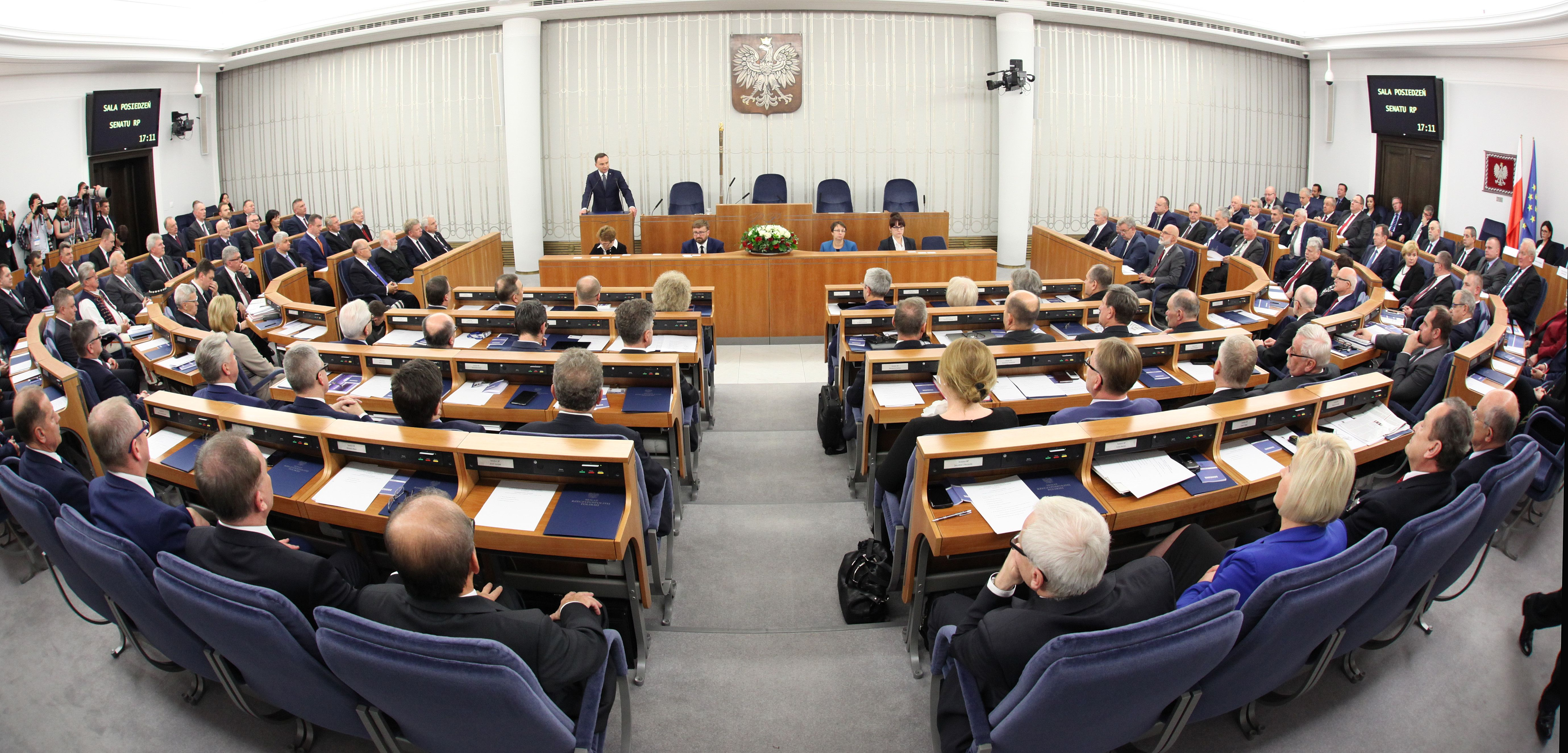 1st sitting the Polish Senate of the 9th term